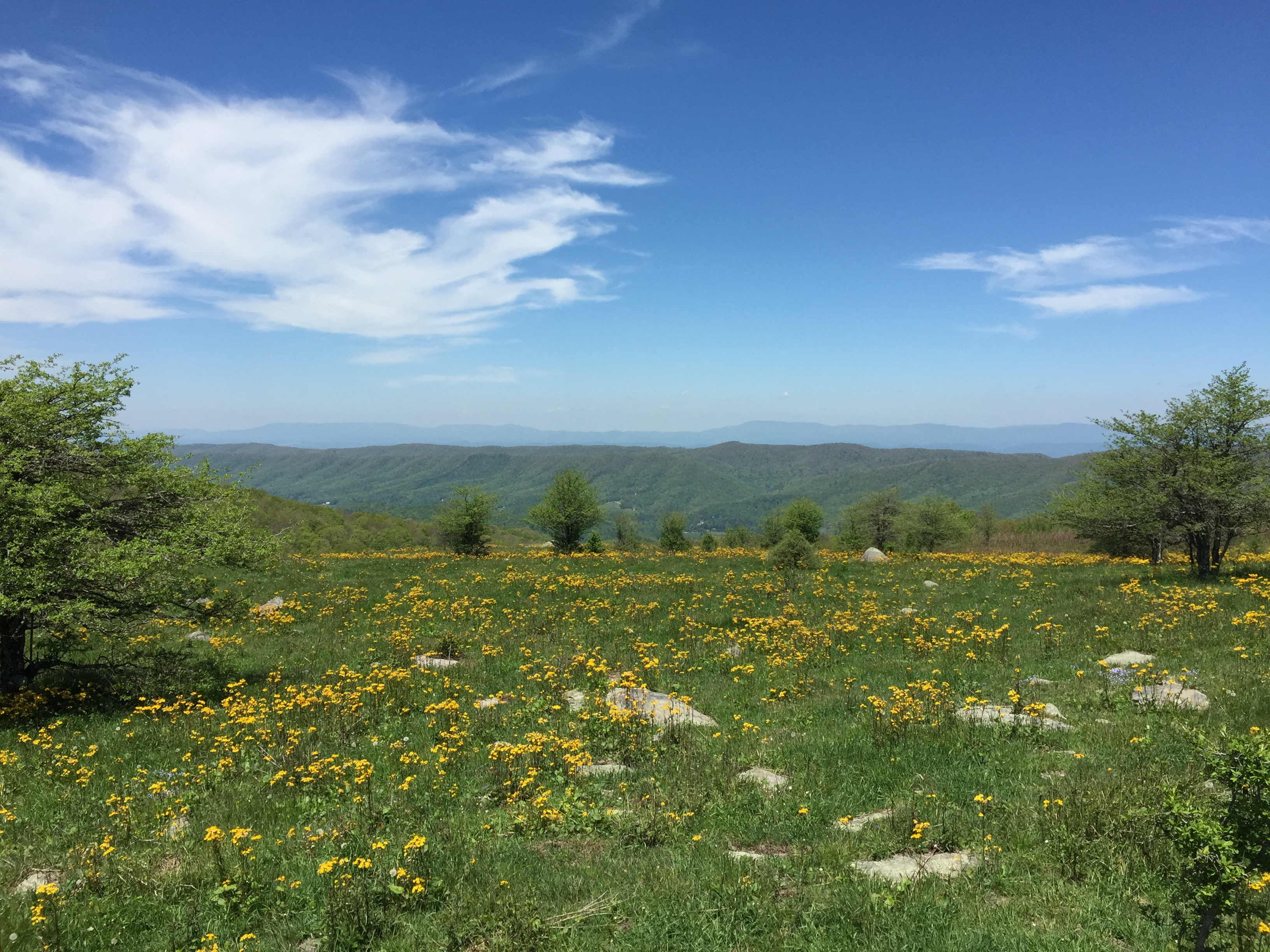 View northwest across a field from the Appalachian Trail in Elk Garden, within the Mount Rogers National Recreation Area along the border of Grayson County, Virginia and Smyth County, Virginia